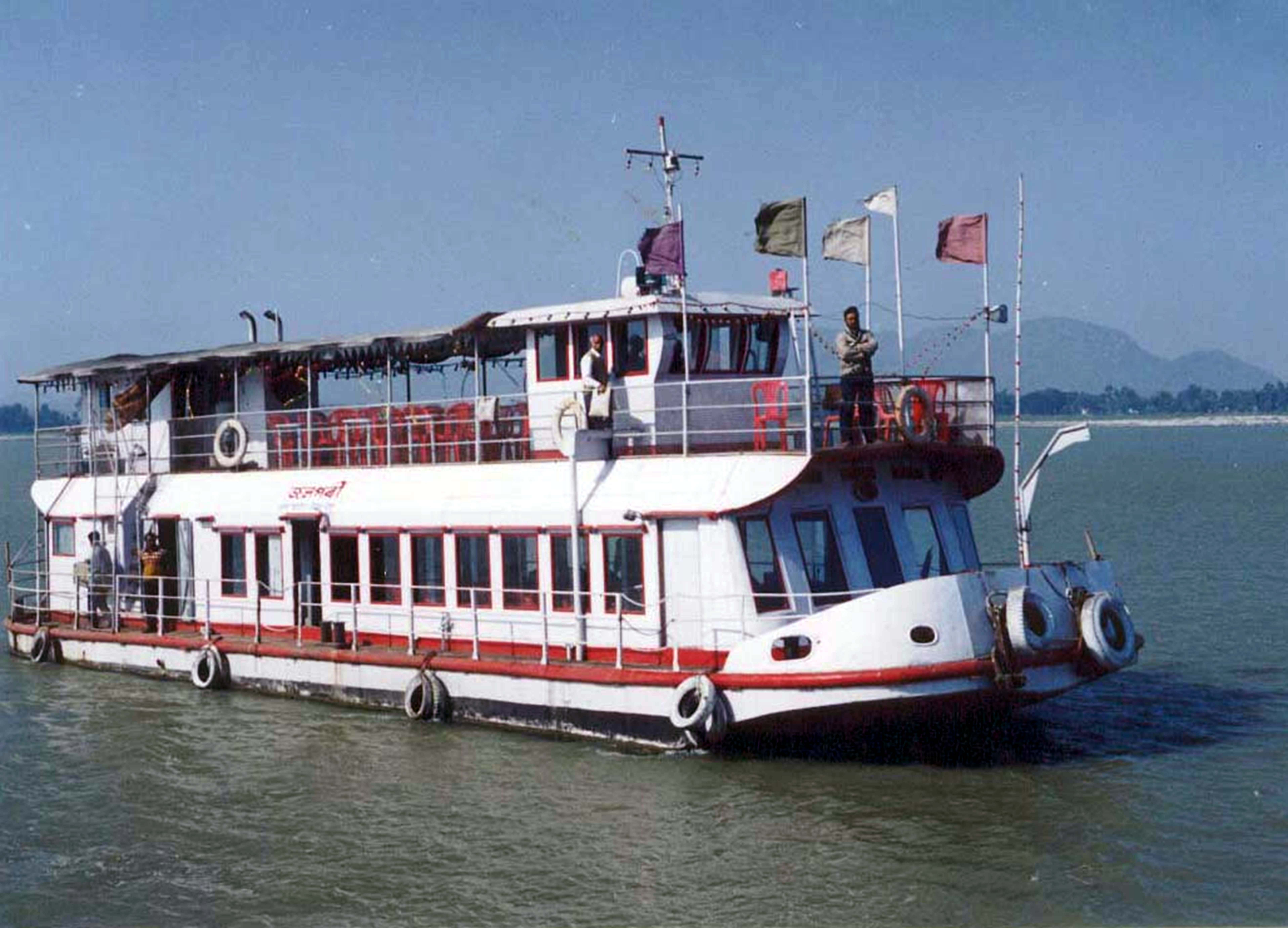 Once Assam Tourism operated this small cruise, now it is non-operational. The cruise facility in Brahmaputra is good. There are several other luxury cruises in Assam on Brahmaputra e.g. MV Mahabaahu, RV Chilarai, RV Charaideo, Alfresco etc.